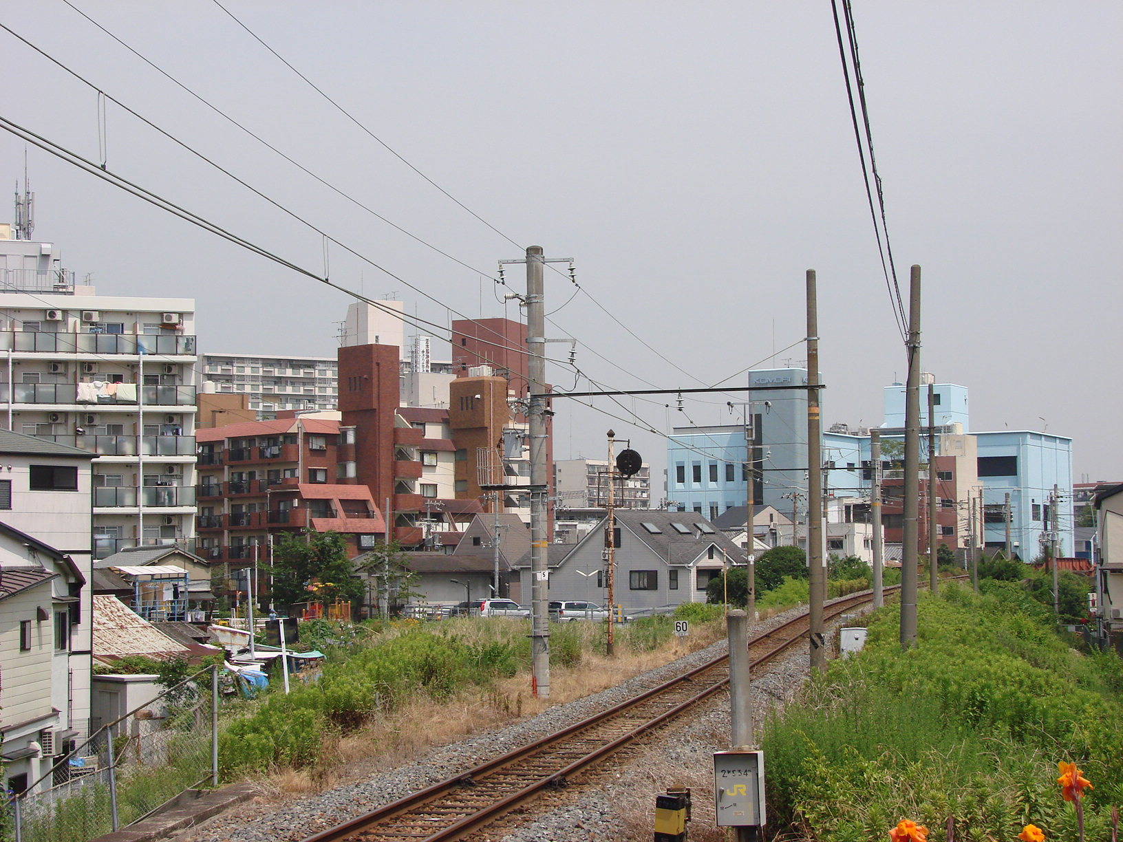 Site of former Tatsumi Signal Base in Osaka, Japan